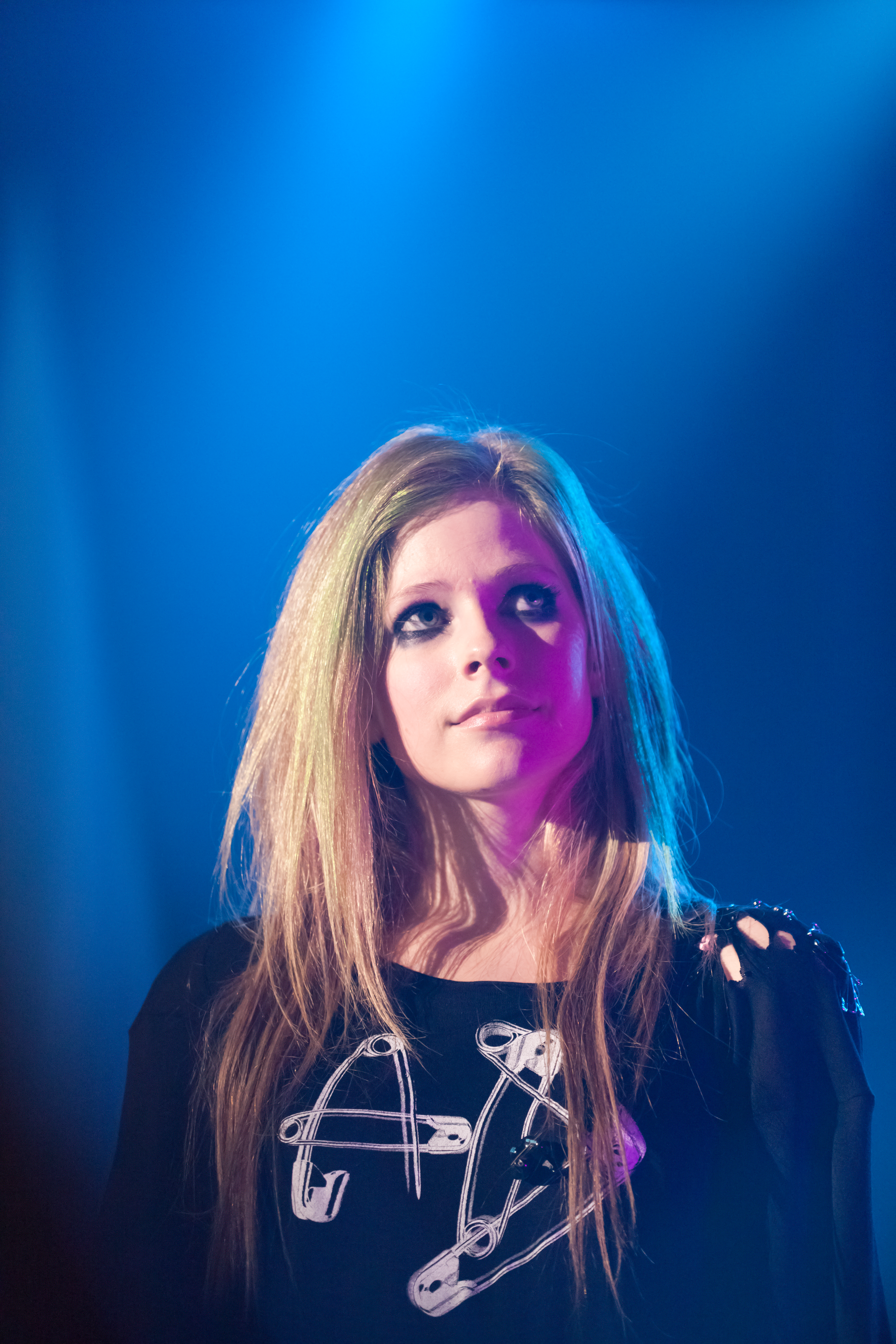 Avril Lavigne performing in Shanghai